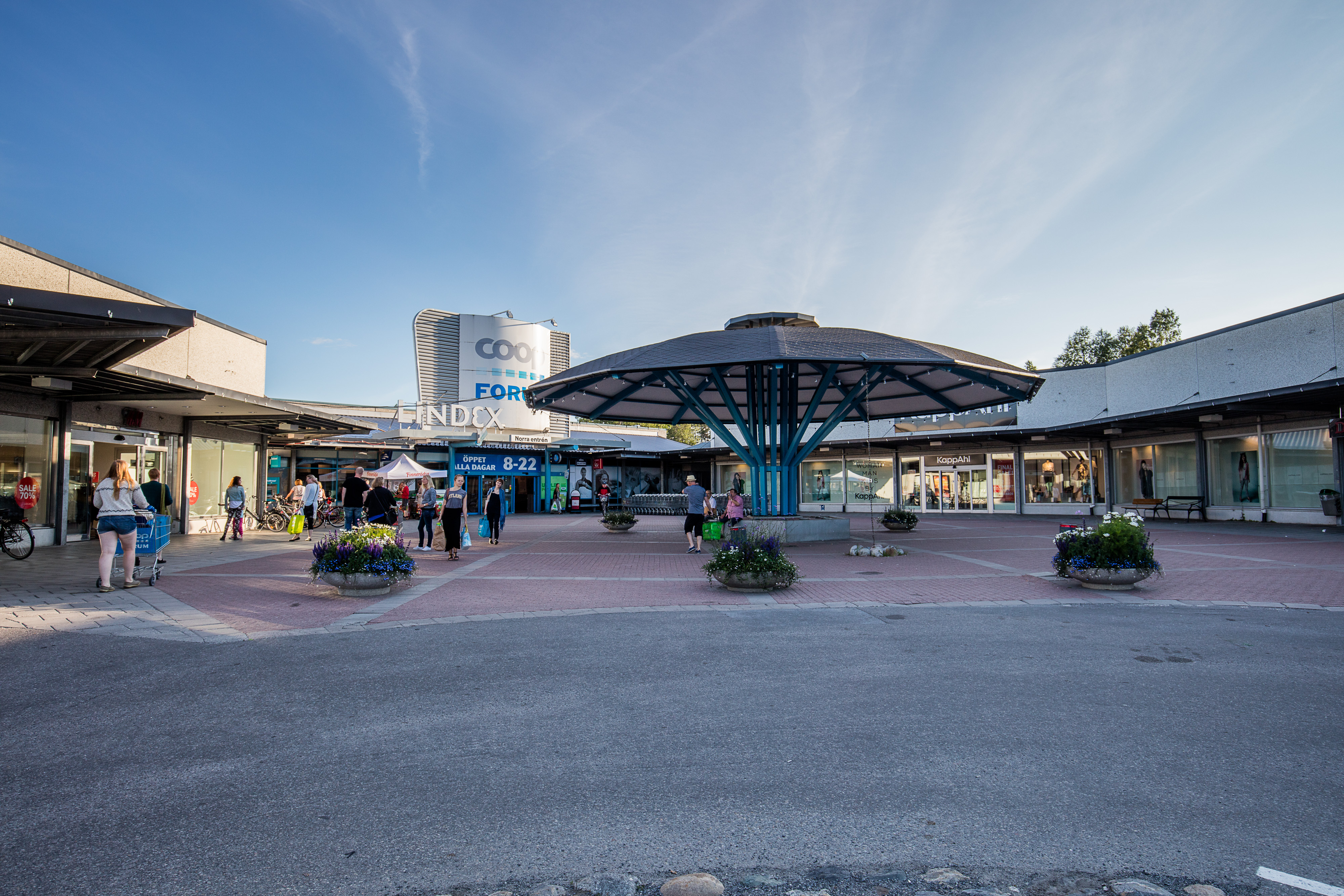 Entrance to the Coop Forum mall in Ersboda in Umeå, Sweden.